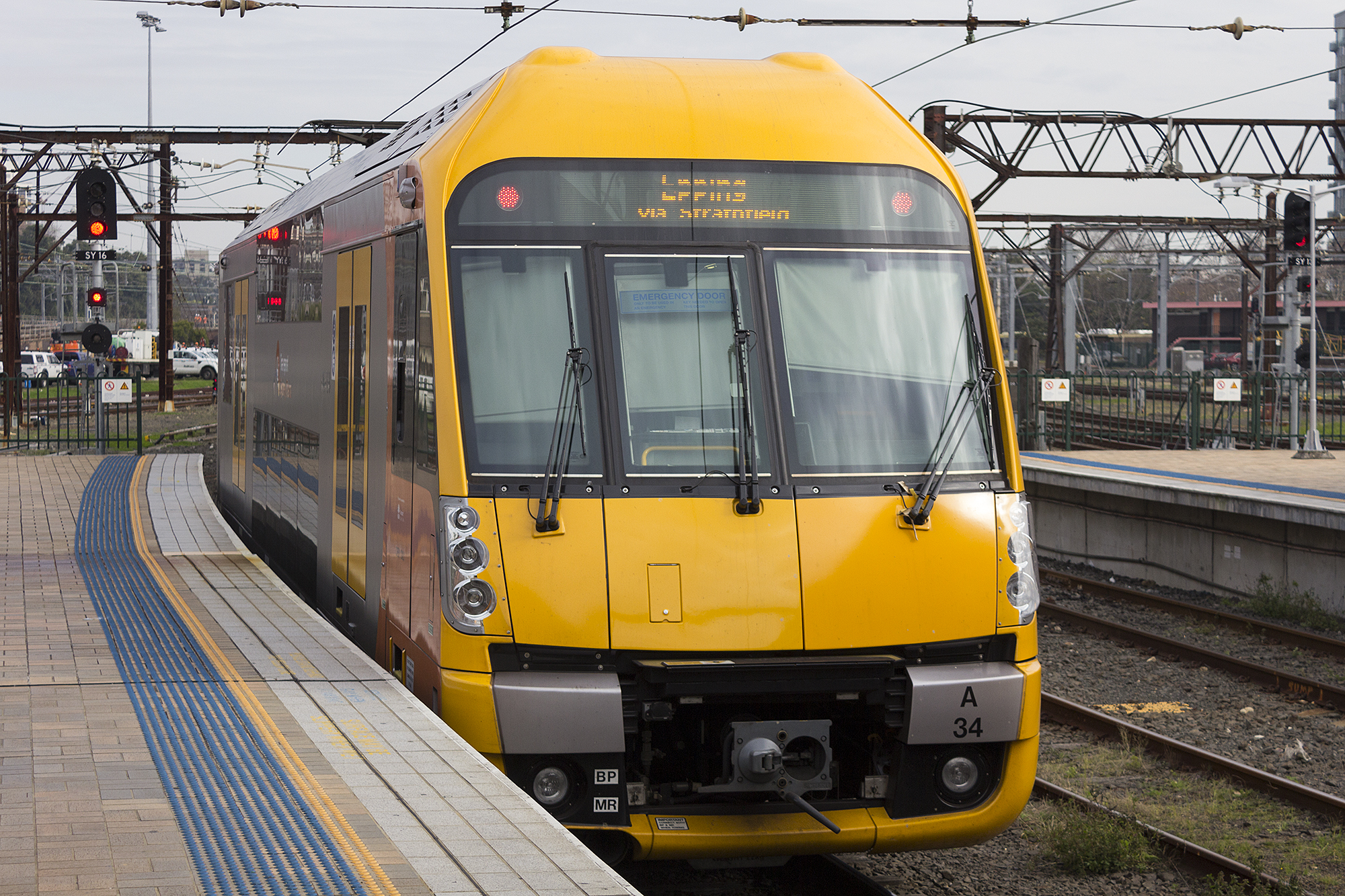 Sydney Trains A set (Waratah) departing Central Station in Sydney.